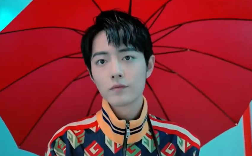 Xiao Zhan - Big Show